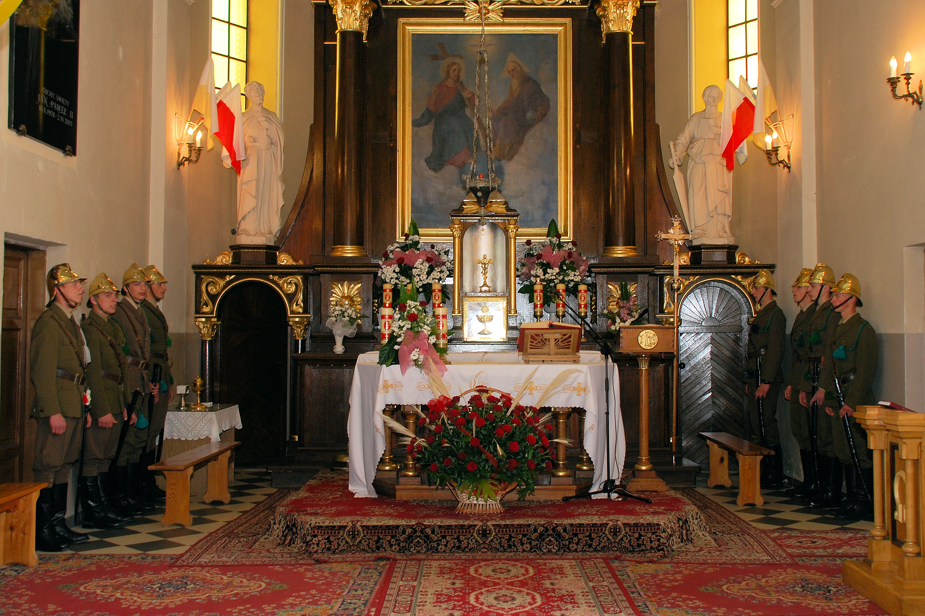 High altar of the church under calling the Holy Trinity in Borkowo